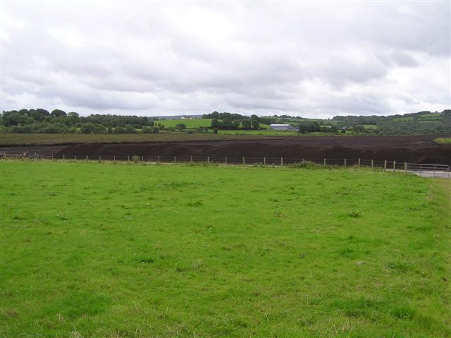 Bog, Garvaghullion One of the last areas that remain where peat is commercially harvested